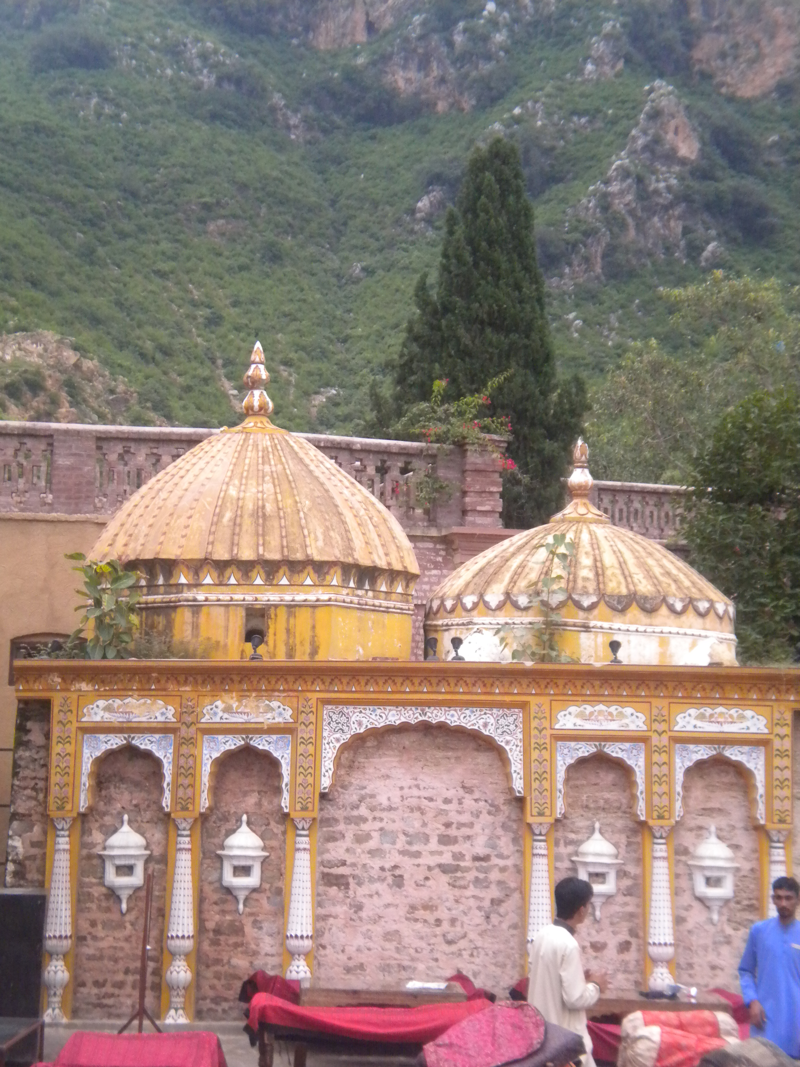 Saidpur Temple